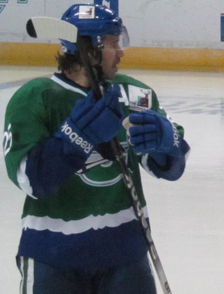 Bridgeport Sound Tigers vs. Connecticut Whale - Webster Bank Arena - Bridgeport, Connecticut - November 11, 2012